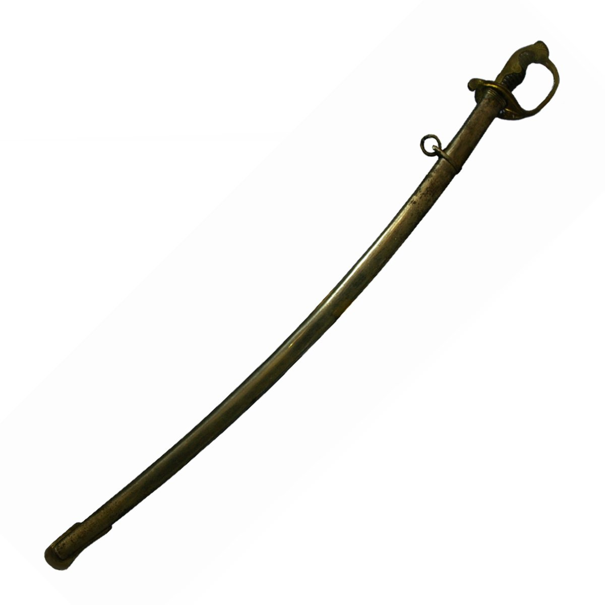 Imperial Japanese Army Gunto & Saber.